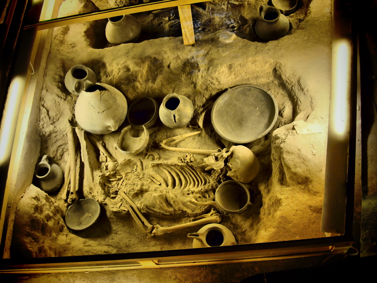 Iron Age Museum, Iran, Tabriz